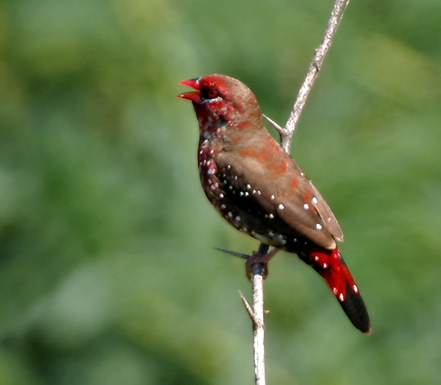 Red Munia, Red Avadavat or Strawberry Finch Amandava amandava - Hindi: Laal munia, Guj: Surakh, Laal muniya , Laal tapu shiyu, Mar: Laal munia, Pun: Laal munia, Surkhan, Te: Torra-jinuwayi, Yerra jinuwayi, Mal: Chuvanna moonia, Kan: Kempu munia- in Manjira Wildlife Sanctuary, Andhra Pradesh, India.